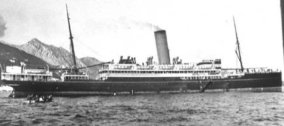 S.S. Zealandia off Port Davey, Tasmania in 1933 "One of a number of photographs taken presumably by Henry Allport during a trip to Port Davey and Port Arthur in the T.S.S. Zealandia, November, 1933 (Stillwell card index). Photograph of the Zealandia with a small dinghy full of passengers."